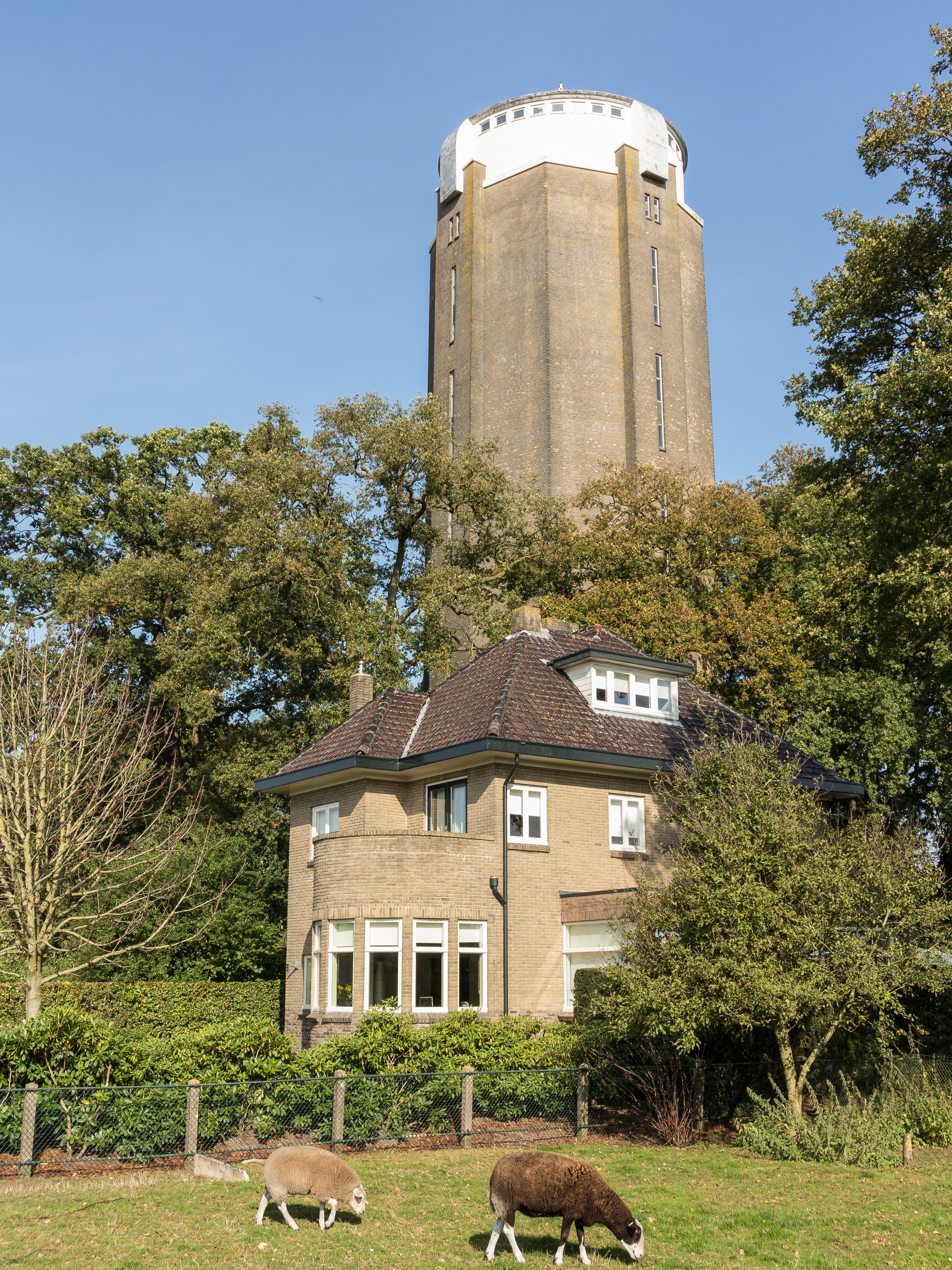 Vriezenveen, watertower